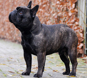 Fantasme de la parure - brindle